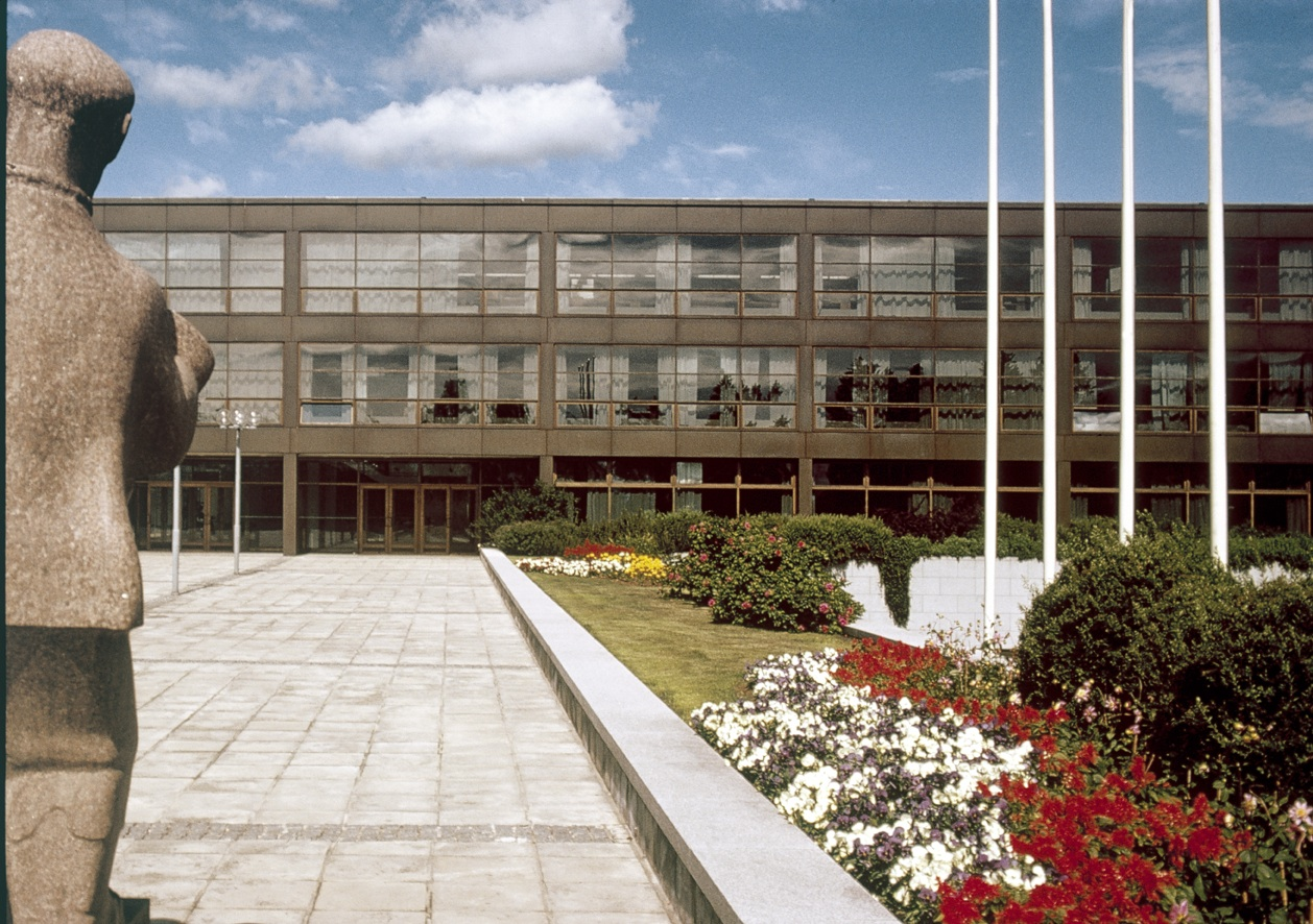 Imatran kaupungintalo - Arto Sipinen